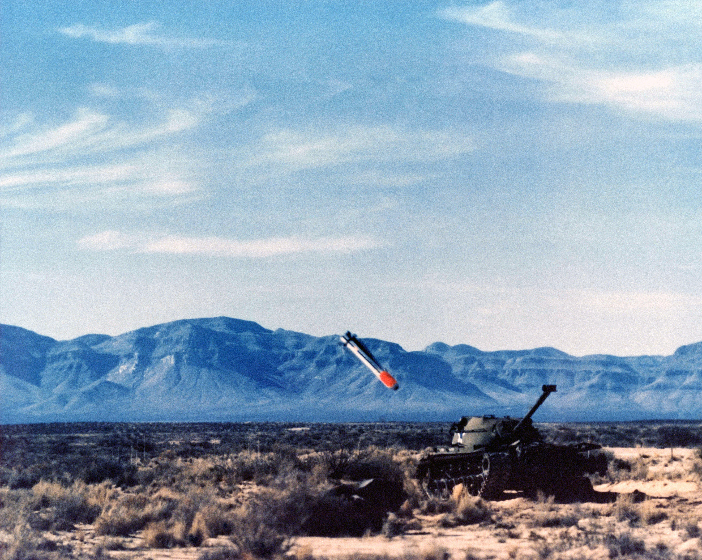 An M48 tank shortly before being struck by an AGM-65 missile.